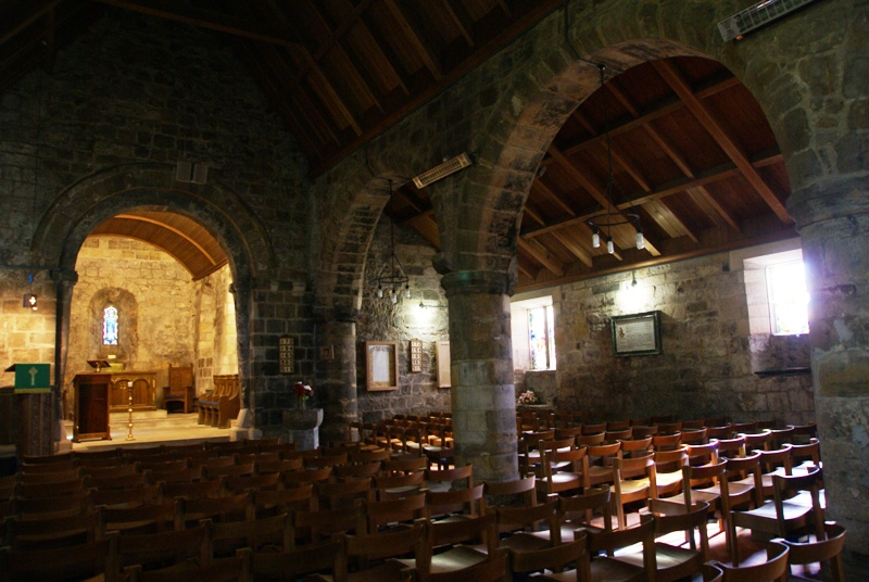 St Fillan's Church, Aberdour, Fife, Scotland. Interior.